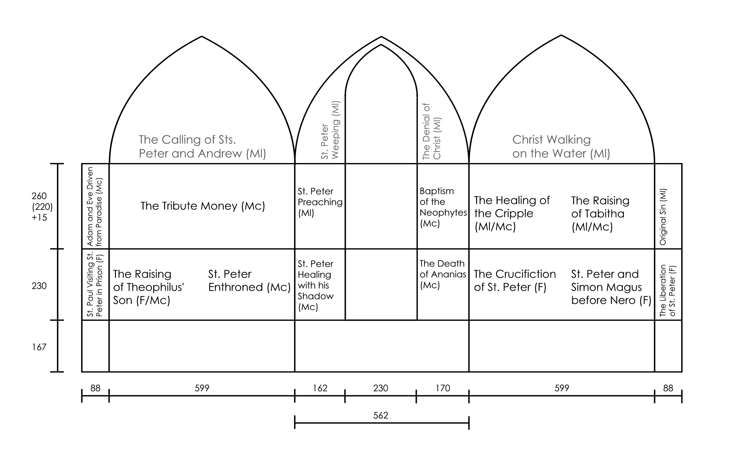 Schematics of the Brancacci Chapel with measures (in cm.), the individual frescoes, and the artists to whom they are attributed: Masaccio (Mc), Masolino (Ml) or Filippino (F). The frescoes on the upper level (in gray) have been painted over and can no longer be seen. The paintings on the upper left and right pier are somewhat shorter than the ones on the wall (260/220), while between the two bands of frescoes there is a ornamental strip (15).